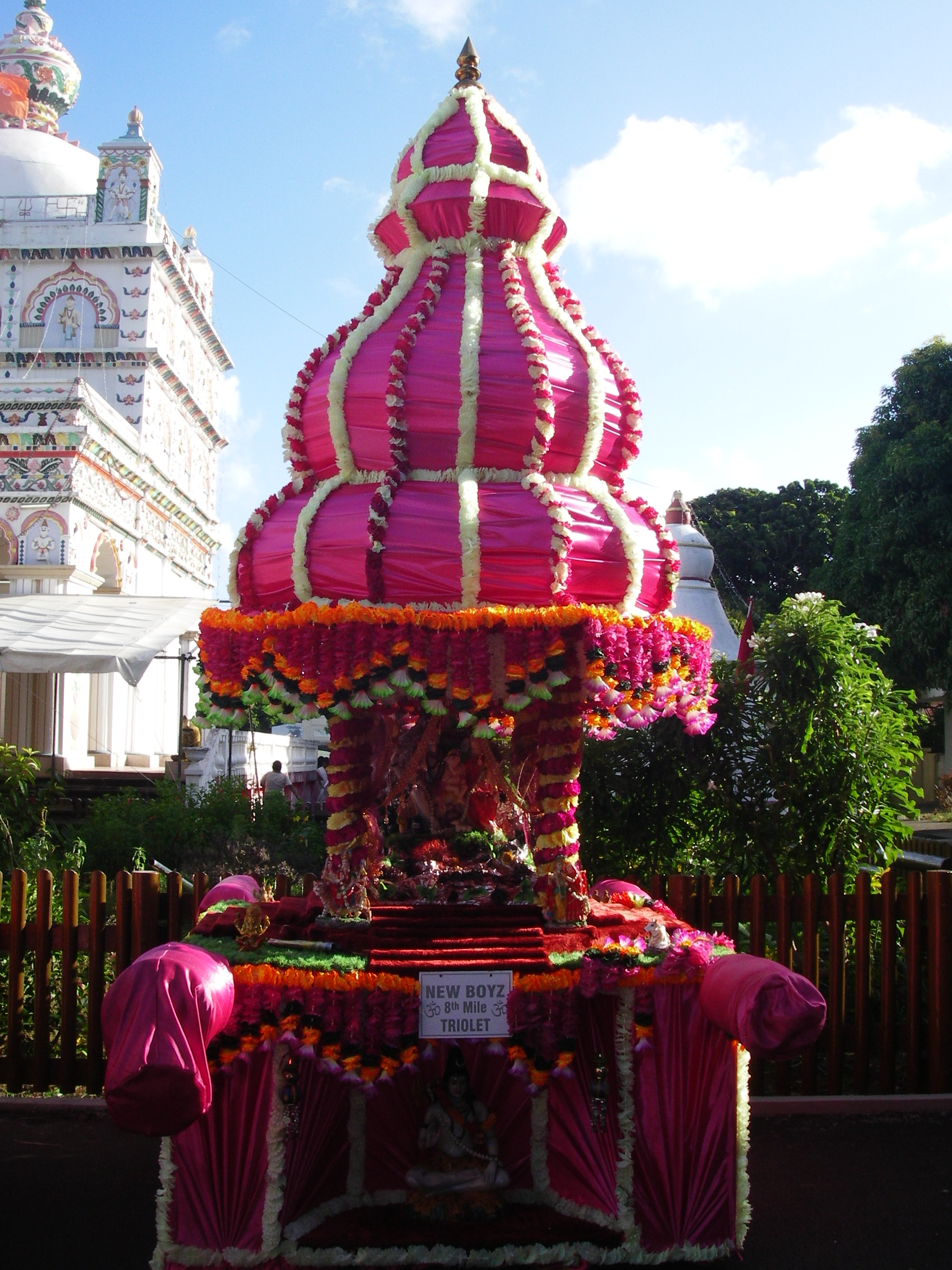 A 'kanwar' in the temple yard.